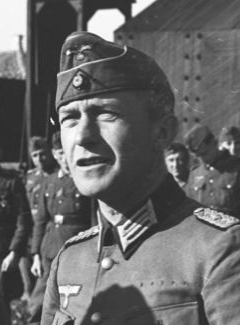 Portrait of Lieutenant-Colonel, later General Major of the Wehrmacht Hans von Ahlfen (1897-1966) in 1942